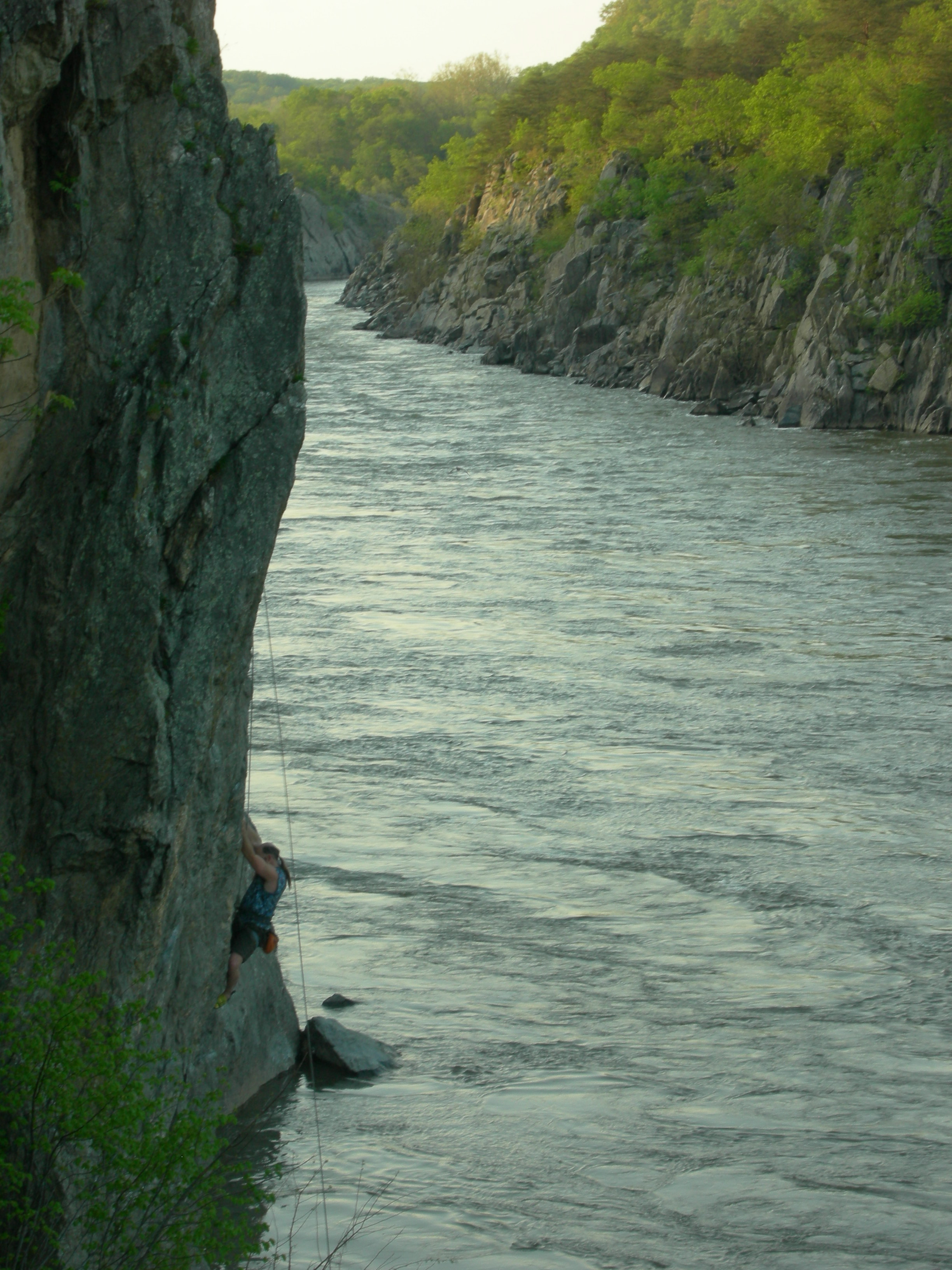 Rock climbers scaling the cliffs on the Virginia side of the Potomac River's Mather Gorge in Great Falls Park.